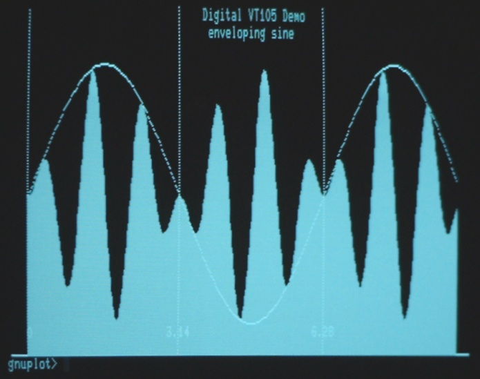 This image shows an example of a shaded graph, or histogram, created using the VT105's "waveform graphics" mode. In this case the second graph has the histogram mode turned on, causing it to fill in the area under the curve. Because the curve data was stored separately for the two graphs, the system could control intensity to brighten areas where they overlapped to keep both visible. This can be seen in the areas were the upper graph lies over the shaded area.